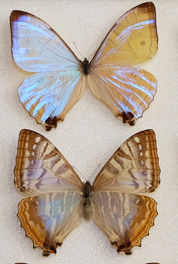 Morpho sulkowskyi Male & female